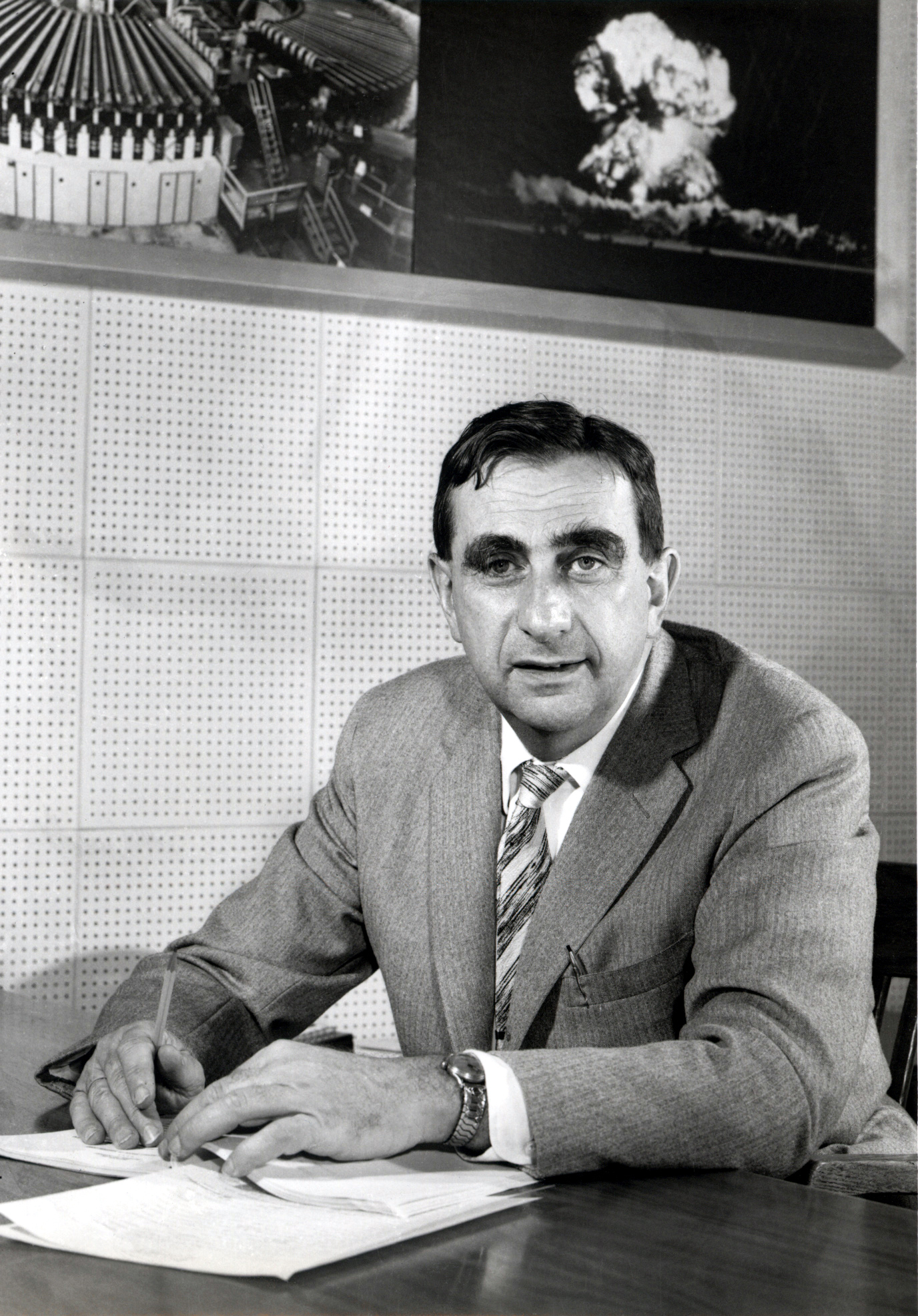 Edward Teller, in 1958, as Director of Lawrence Livermore National Laboratory. Note that the picture at his top left is of the Alpha Calutron Racetrack from the Manhattan Project, and the picture at his top right is of the 1953 BADGER nuclear test. Image credit Lawrence Livermore National Laboratory, original at [1]